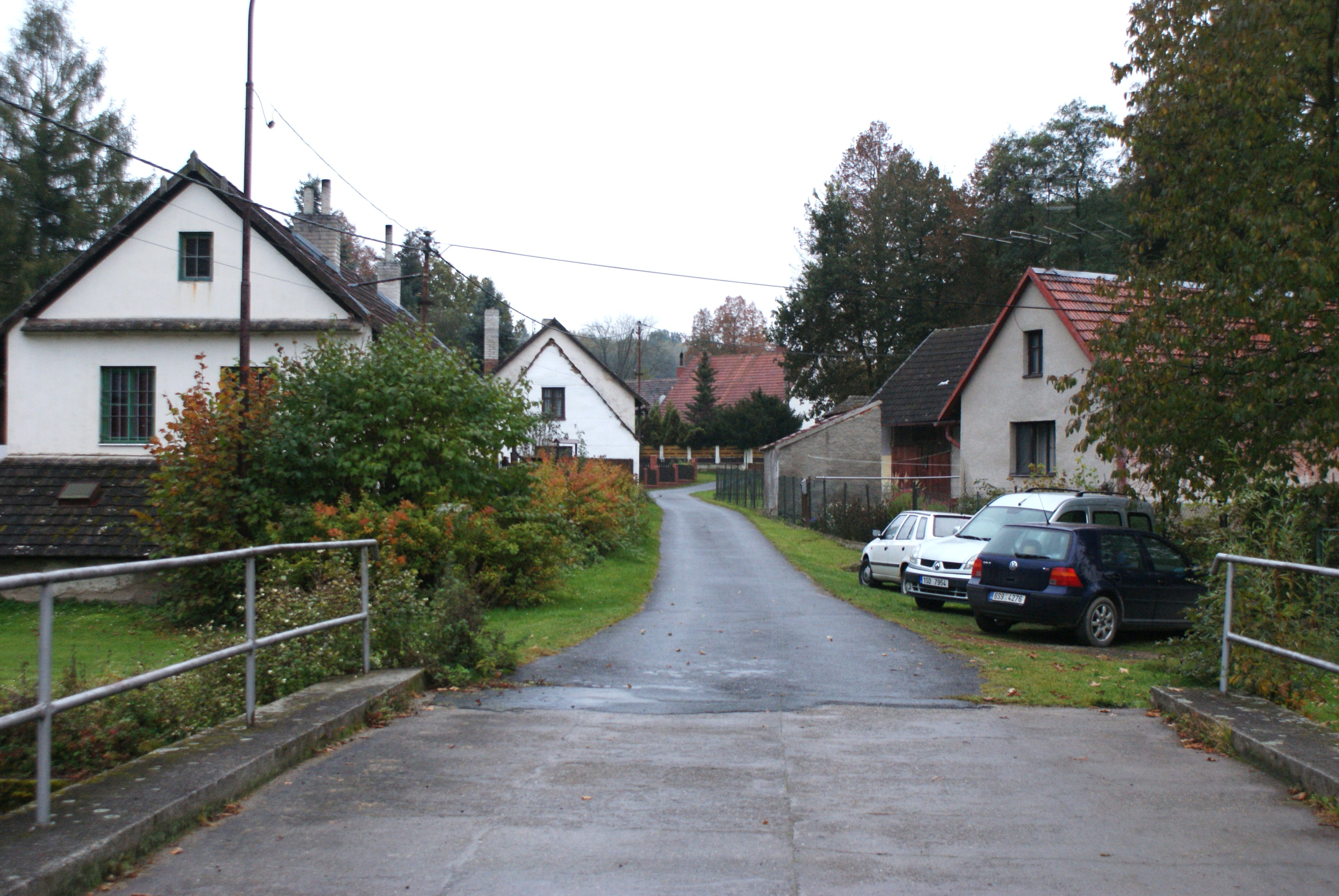 This photograph was taken within the scope of the Czech 'Photo Workshops' grant.